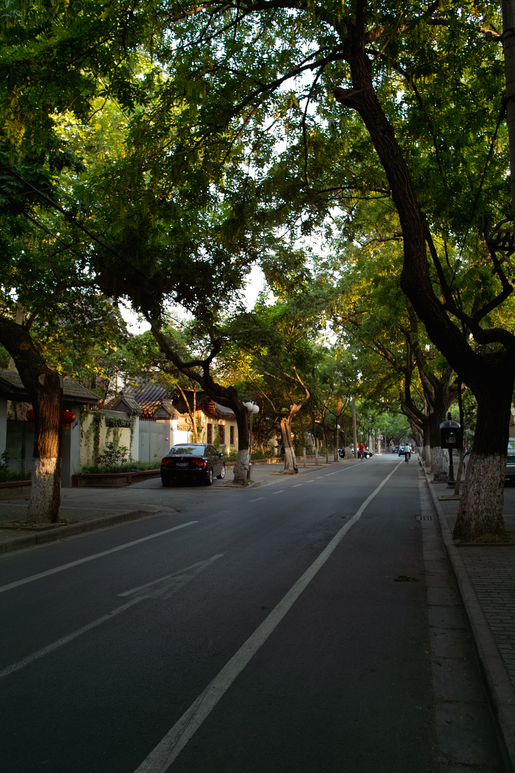 Ninghai Road, Nanjing 中文（中国大陆）: 宁海路，南京